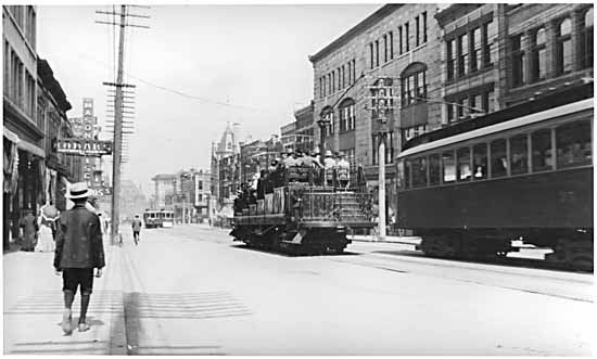 600 block Granville Street, Vancouver, Canada. Looking north east from north of Georgia Street. The Hudson's Bay department store is partially visible far right. Several streetcars are running, including a B.C. Electric observation car, which made a sightseeing trip popular with tourists. A little beyond it on the right is the New York Block and further on is the tower of the Bank of Montreal. The Canadian Bank of Commerce is the white building and beyond that is the CPR depot. On the left side of the street a number of businesses can be seen. Also available as a lantern slide (66982). Caption on lantern slide reads, "Out to see the city."